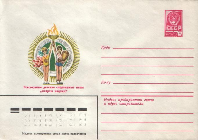 Artistic stamped 4 kopek envelope (HMC), USSR Ministry of Communications. All-Union Children's sports game "Starts of Hope." Issued July 20, 1981. Artist II. Filippov. Circulation - 30 million. Source: magazine "Philately in the USSR», № 2, 1982, p.37. Catalog Number - 15037.